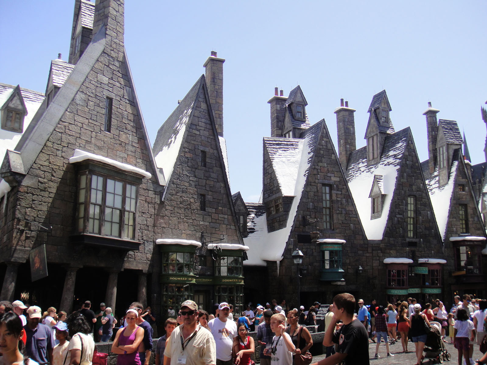 Wizarding World of Harry Potter - Hogsmeade